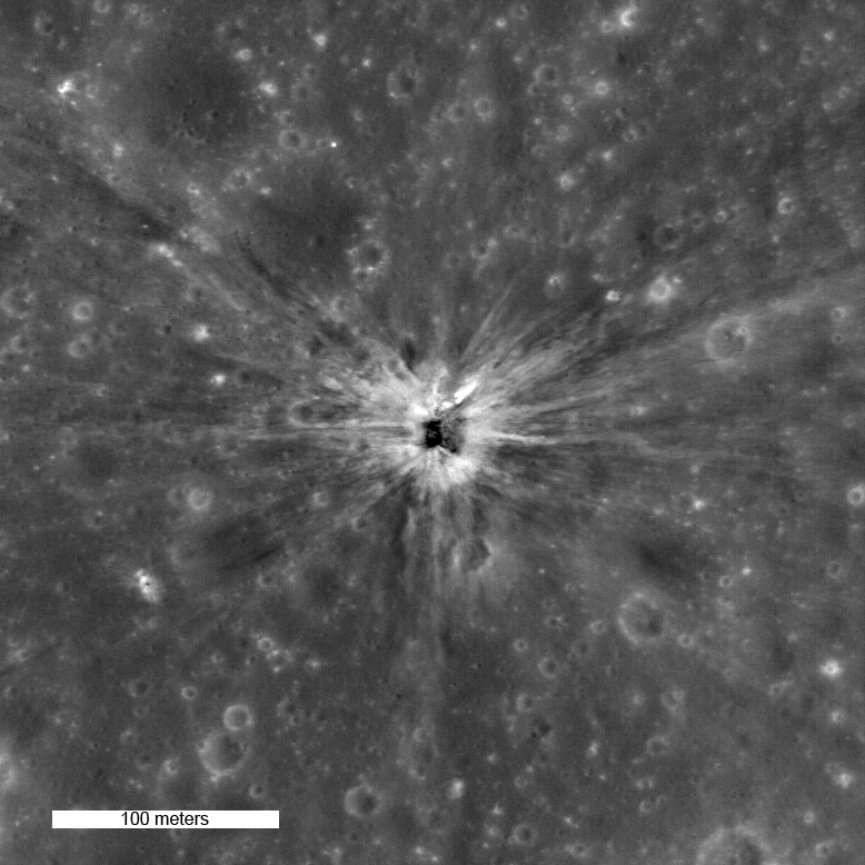 On April 14th 1970, the Apollo 13 Saturn IVB third stage rocket booster impacted the moon north of Mare Cognitum. The impact crater is roughly 30 meters in diameter.